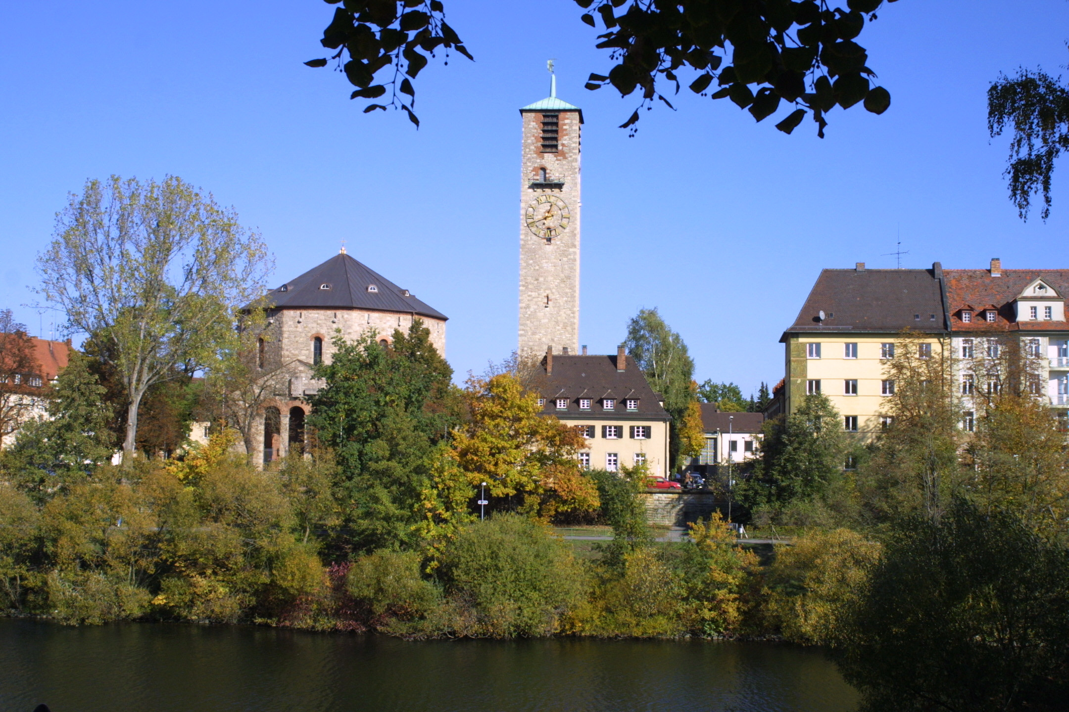 Church in Bamberg, Germany